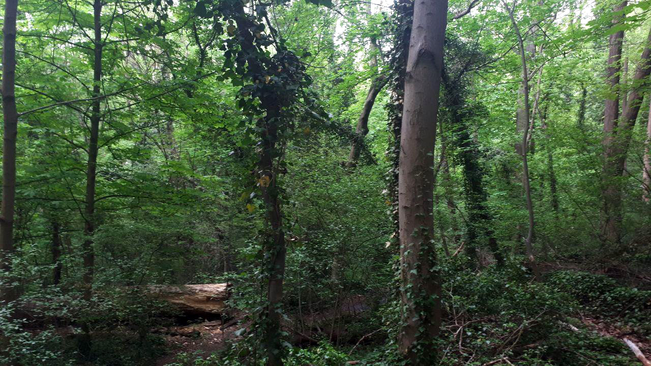 A picture of the forest "Neuborn"